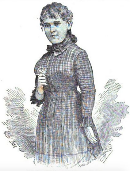 Nellie Pollard, alias Nellie Burrell, alias Mrs. Williams, from an 1883 publication. Provided clerical services for the U.S. Treasury Department. Mistress of Henry W. Howgate.